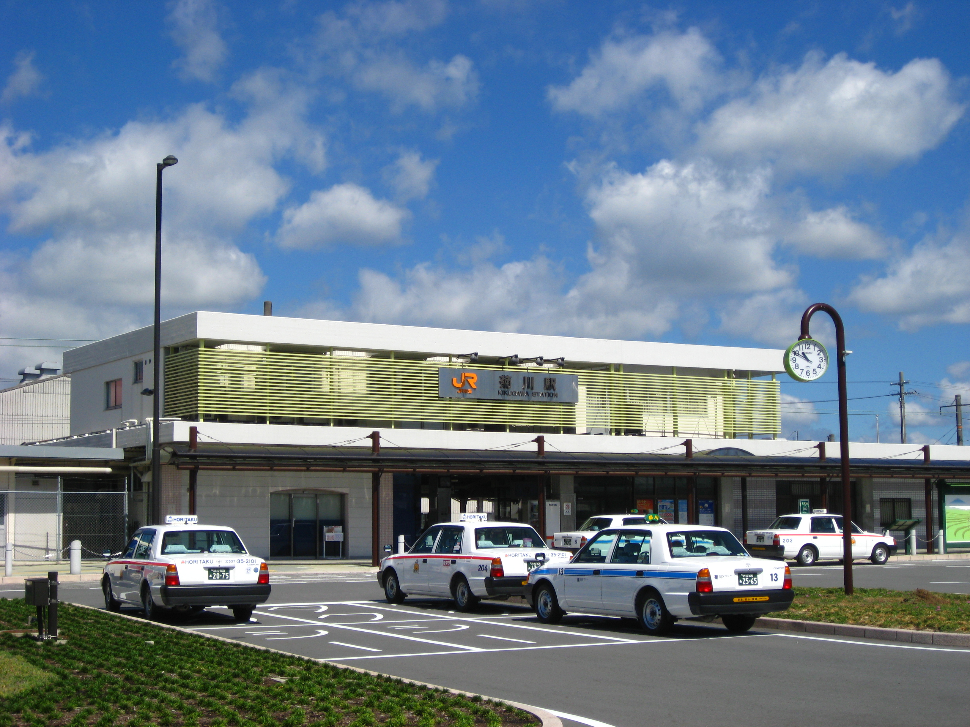 Kikugawa Station of Central Japan Railway Company, Kikugawa, Shizuoka Japan.